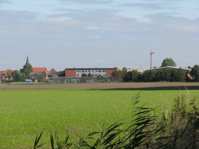 Secondary School of Samtgemeinde Nordkehdingen in Freiburg/Elbe, Lower Saxony